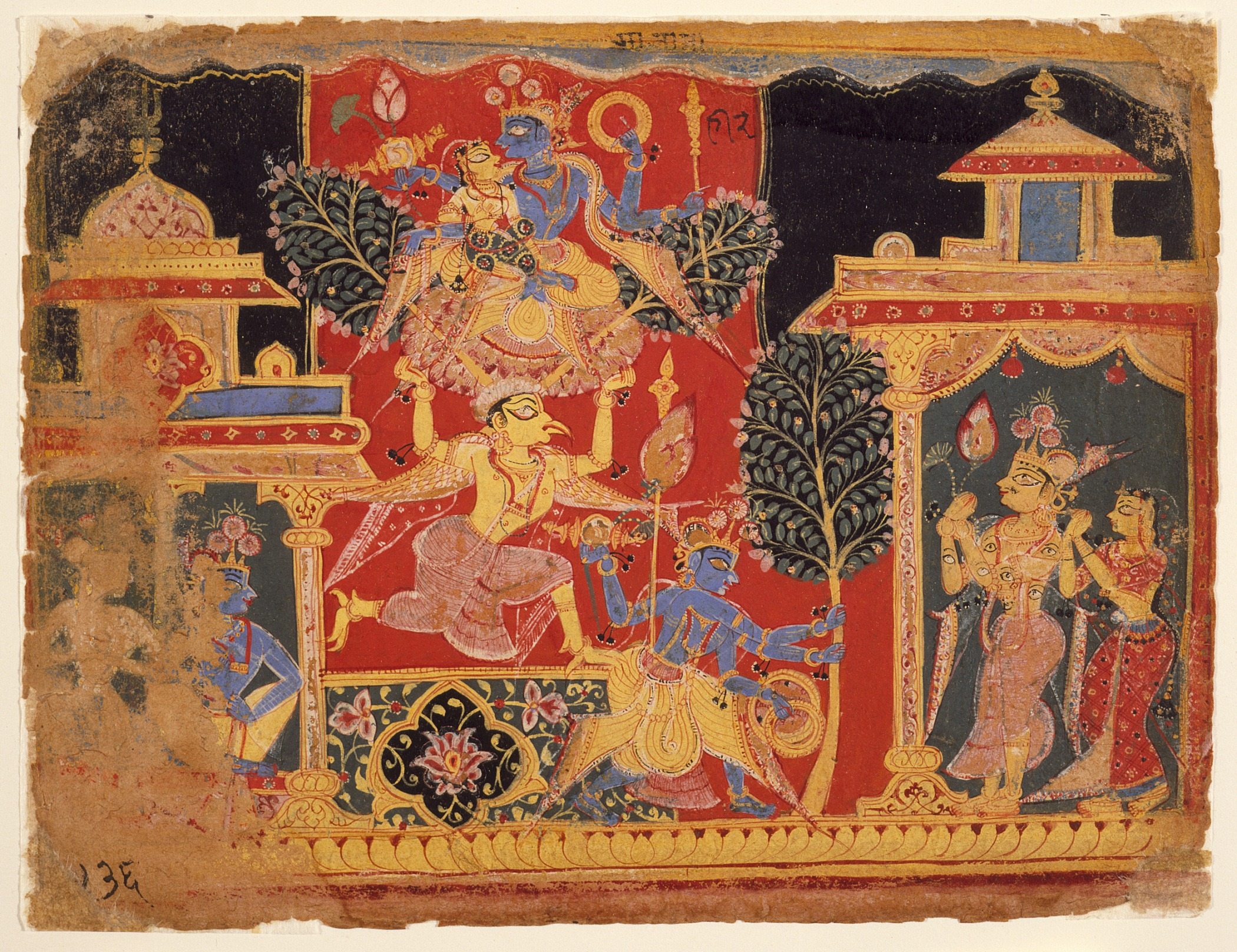 India, Delhi region or Rajasthan, 1525-1550 Drawings; watercolors Opaque watercolor and ink on paper From the Nasli and Alice Heeramaneck Collection, Museum Associates Purchase (M.72.1.26) South and Southeast Asian Art